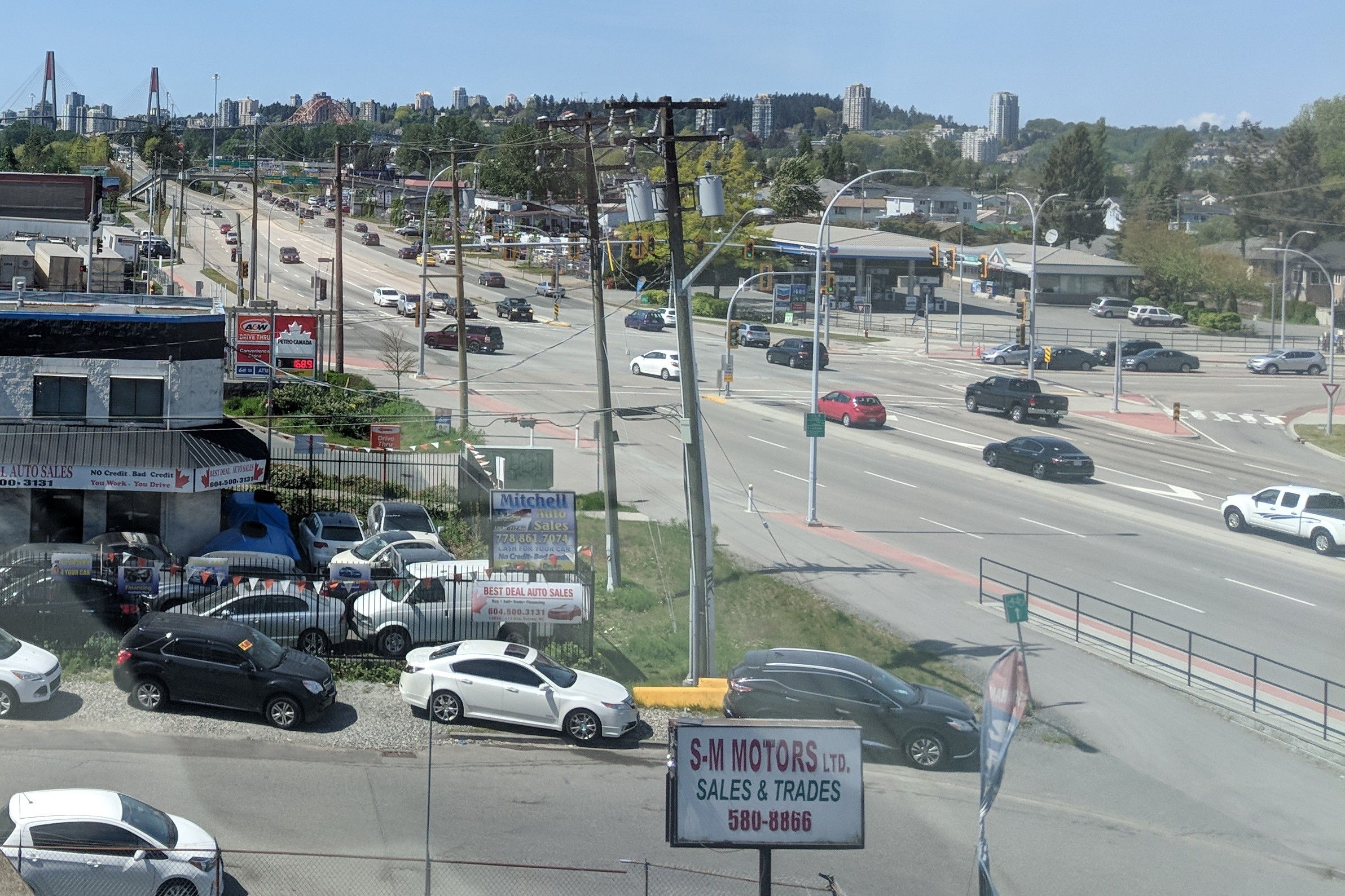 Bridgeview neighbourhood of Surrey, British Columbia, Canada; seen from a westbound Expo Line train. Photo taken in May 2019.